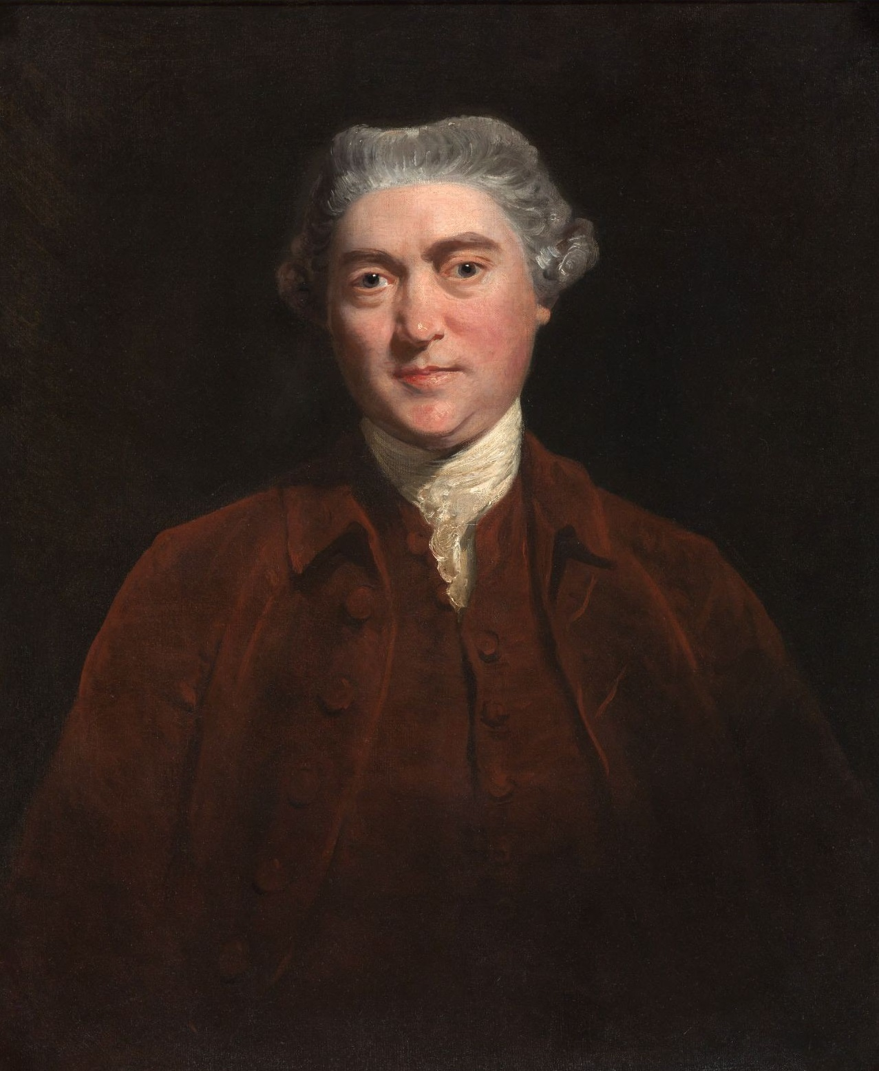 Portrait of Henry Thrale by Sir Joshua Reynolds, 1723-1792. Oil on canvas. Bequest of Mary Hyde Eccles. *2003JM-3, Houghton Library, Harvard University